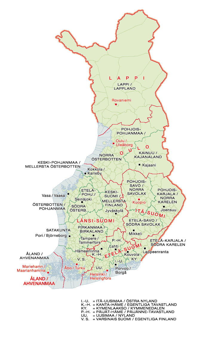 Map of Finland, its districts and major cities.